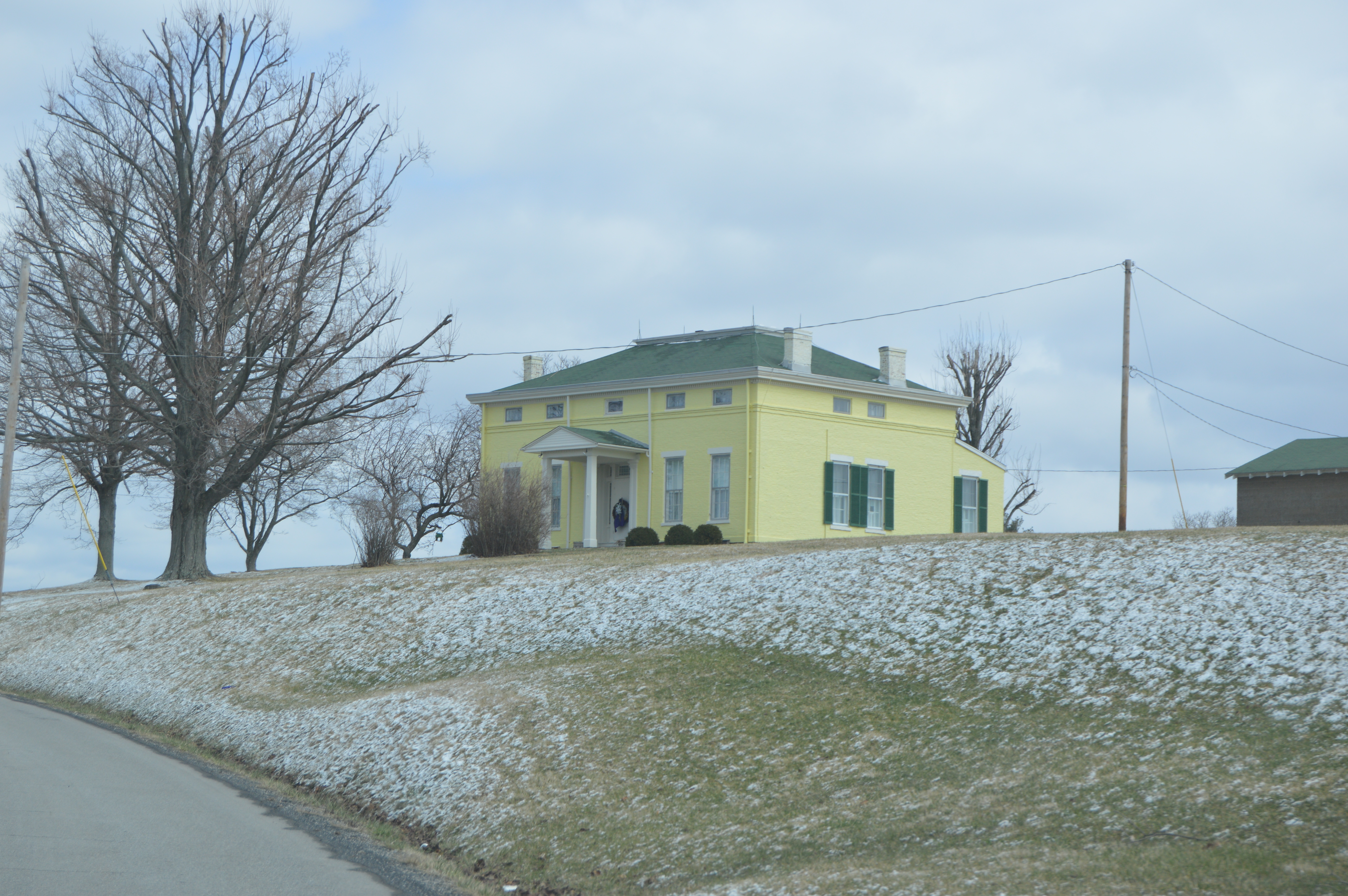 Front of the Carter Farmhouse, located along Boggs Hill Road northeast of Wheeling in Ohio County, West Virginia, United States. Built in 1852, it is listed on the National Register of Historic Places along with the rest of the farm complex.